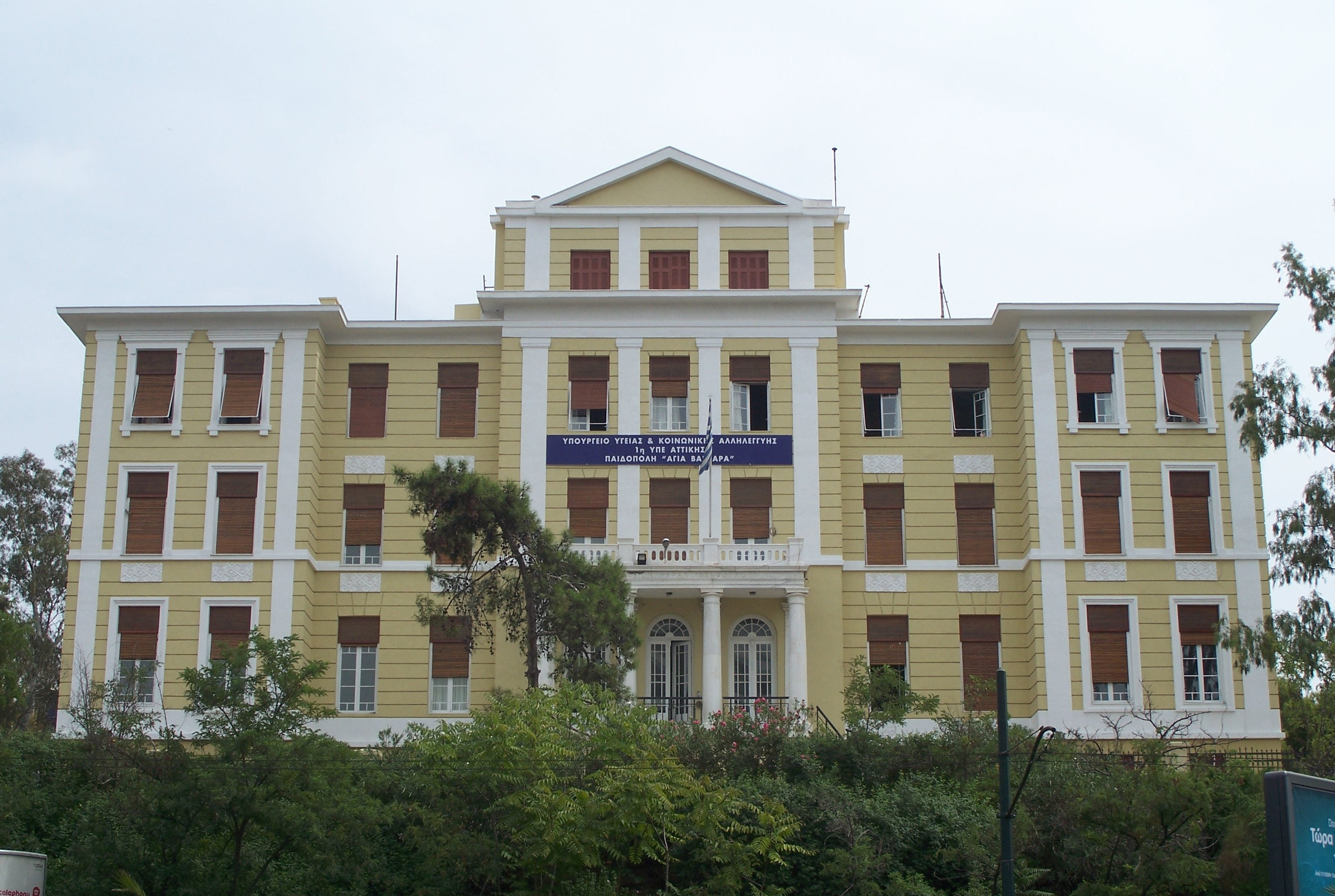 The Iosifogleion building, used as a child shelter since the 1930's, at Nea Smyrni in Athens.